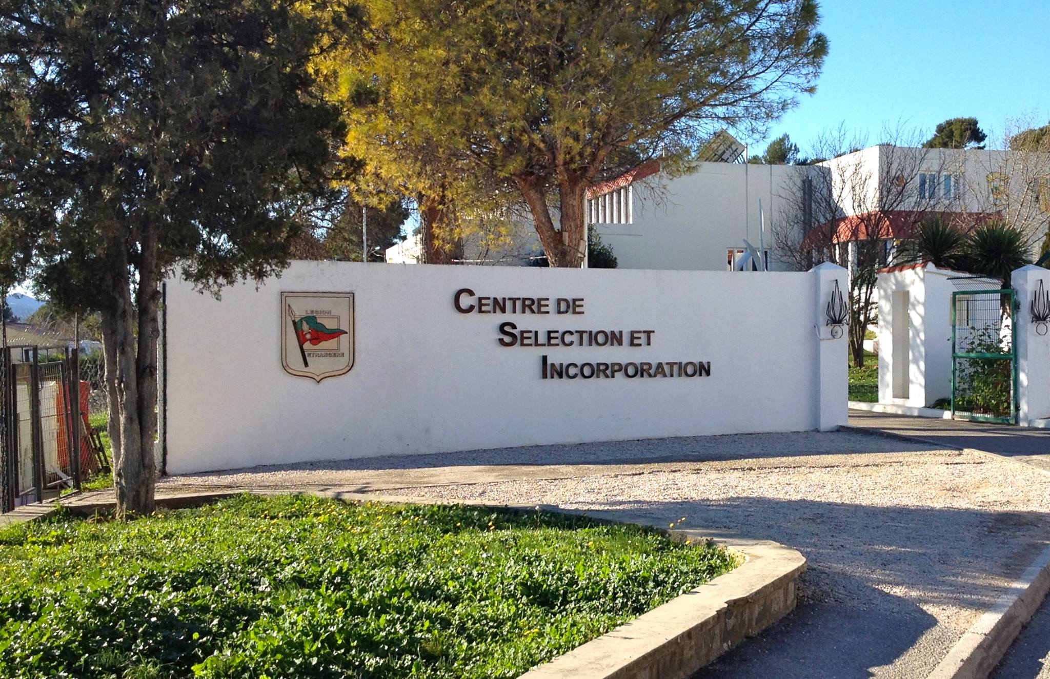 Main entrance of French foreign legion recruitment center in Aubagne (France)